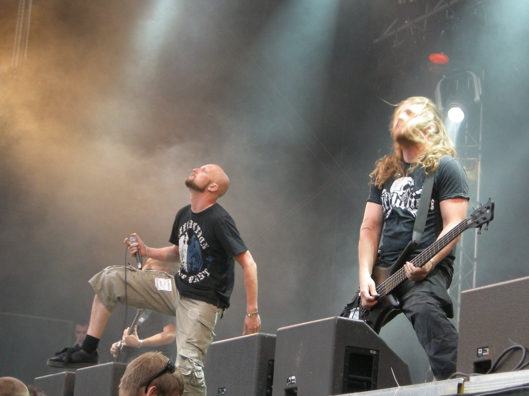 Jens Kidman and Dick Lövgren, Meshuggah, at Sonisphere Sweden 2009